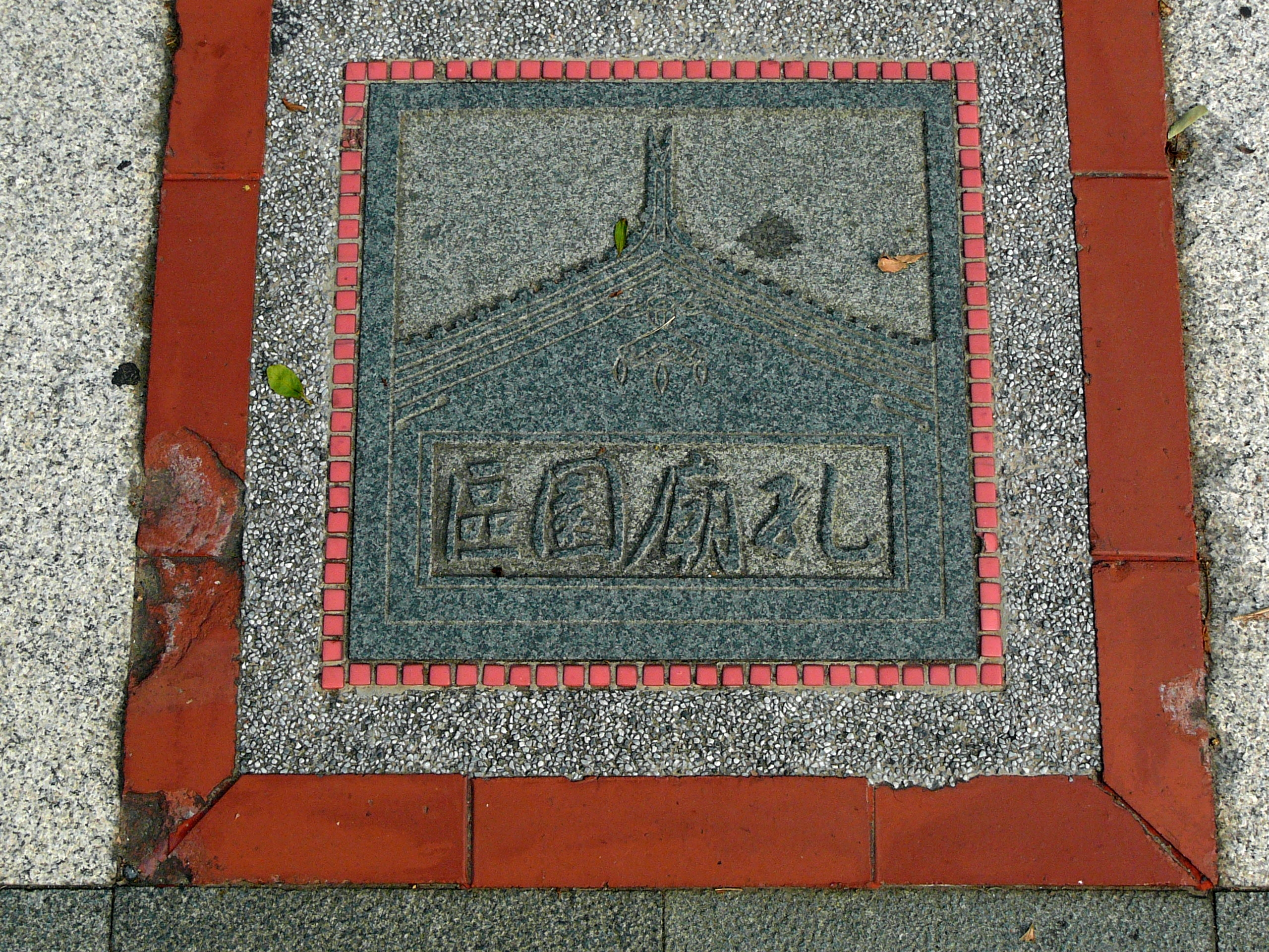 a plate of the Temple of Confucius in Tainan